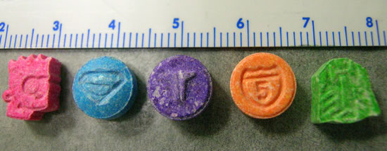 Benzylpiperazine (BZP) and Trifluoromethylpiperazine (TFMPP) containing tablets, sold as "Ecstasy". Seized in Portland, Oregon, USA